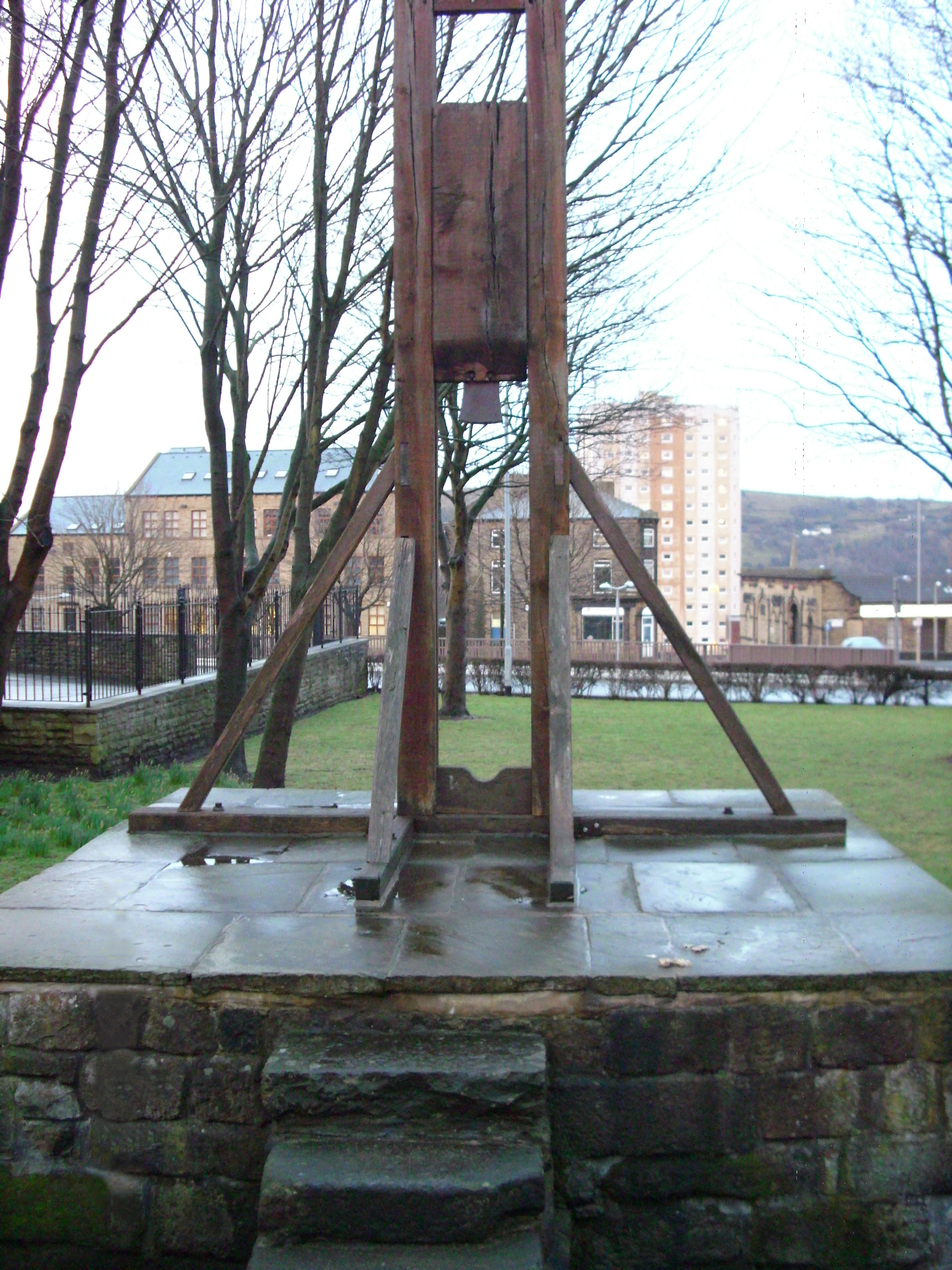 View of replica Halifax Gibbet on original steps and base at original site, with Halifax town in background (Gibbet Street is to the right, just out of shot). The original iron execution blade is on public display at the Bankfield Museum, Akroyd Park, Boothtown Road, Halifax.